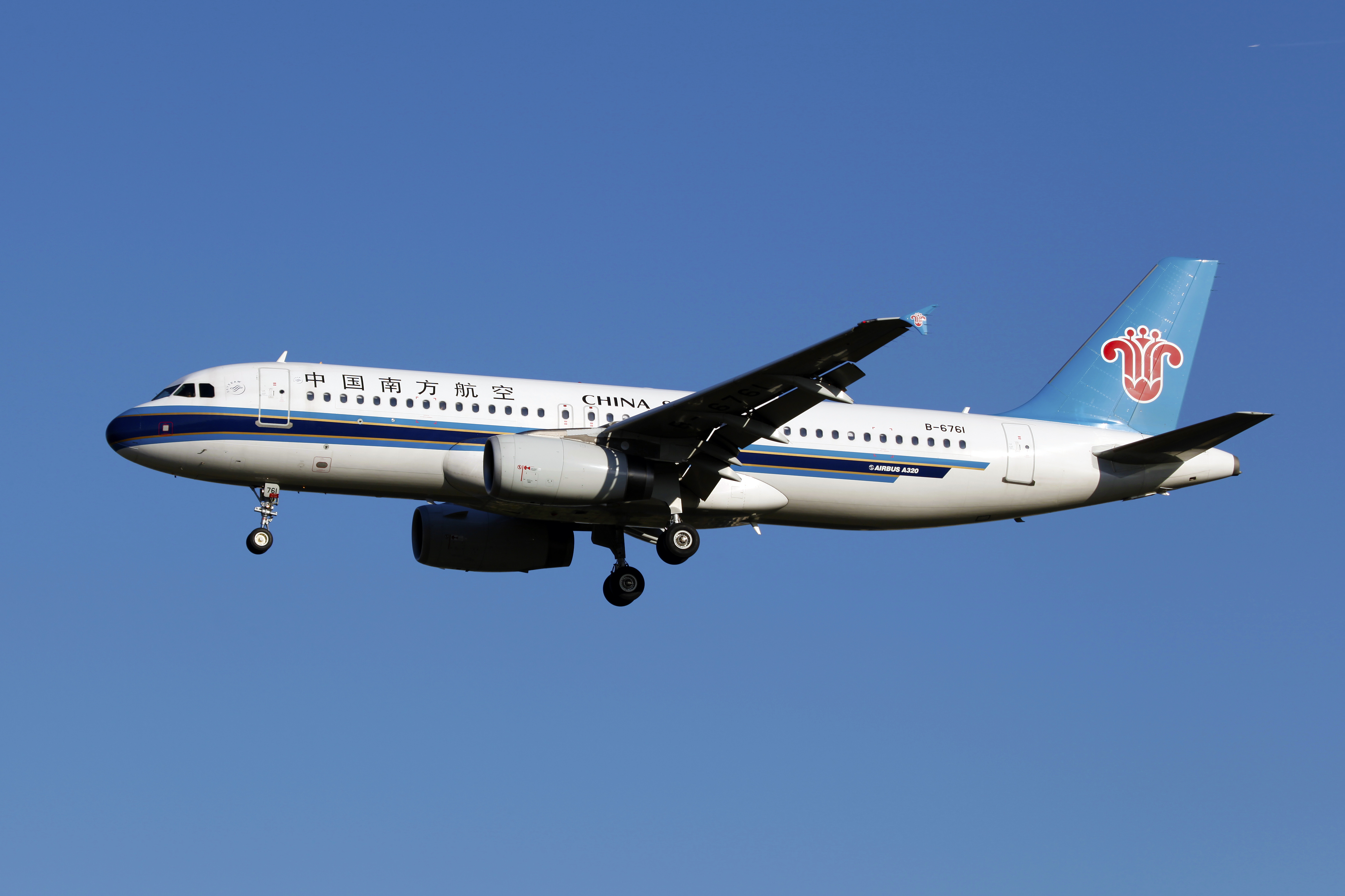 B-6761 | China Southern Airlines | Airbus A320-232 | Beijing Capital International Airport [PEK]